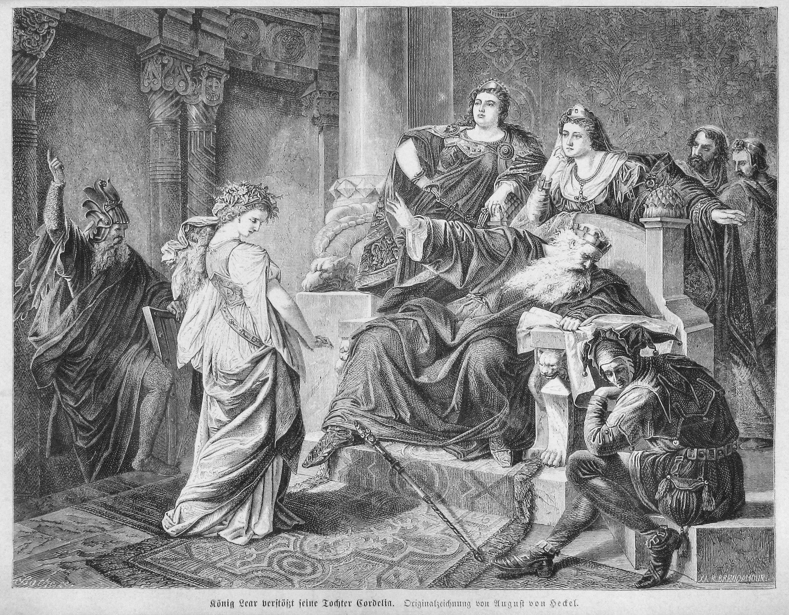 Image from page 547 of book Die Gartenlaube, 1873.